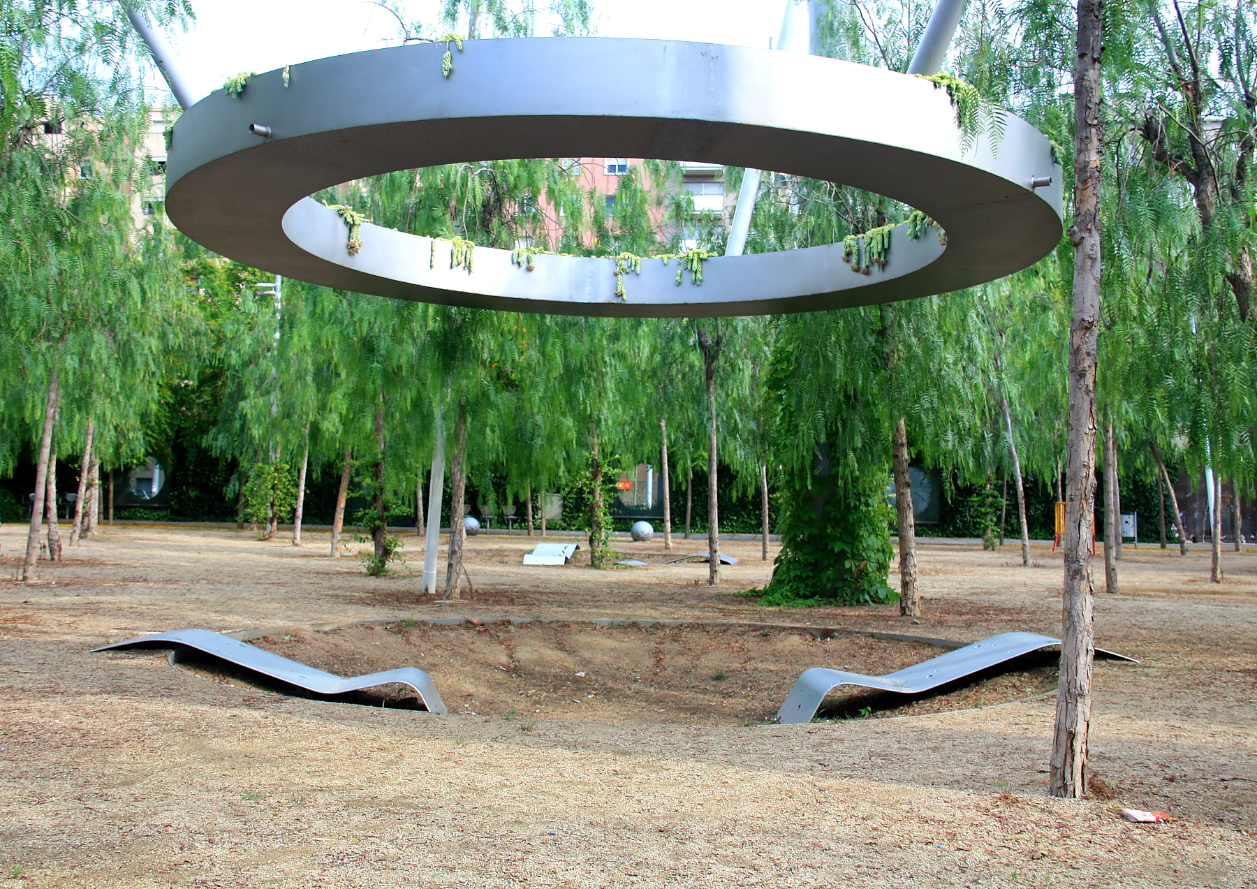 Off the tourist path in Barcelona lies the ultra-modern Park del Centre del Poblenou near Torre Agbar, both designed by French-born architect Jean Nouvel.